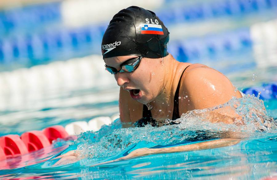 Tjaša Vozel competes in 200m Breaststroke during Slovenian Swimming National Championship 2014, on August 3, 2014 in Ravne na Koroskem, Slovenia.